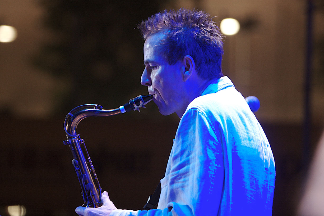 Ian Ritchie performing at the Malta Jazz Festival in July 2006 with his SOHO Project. The picture was taken by Paul Zammit Cutajar and is used with his full permission.